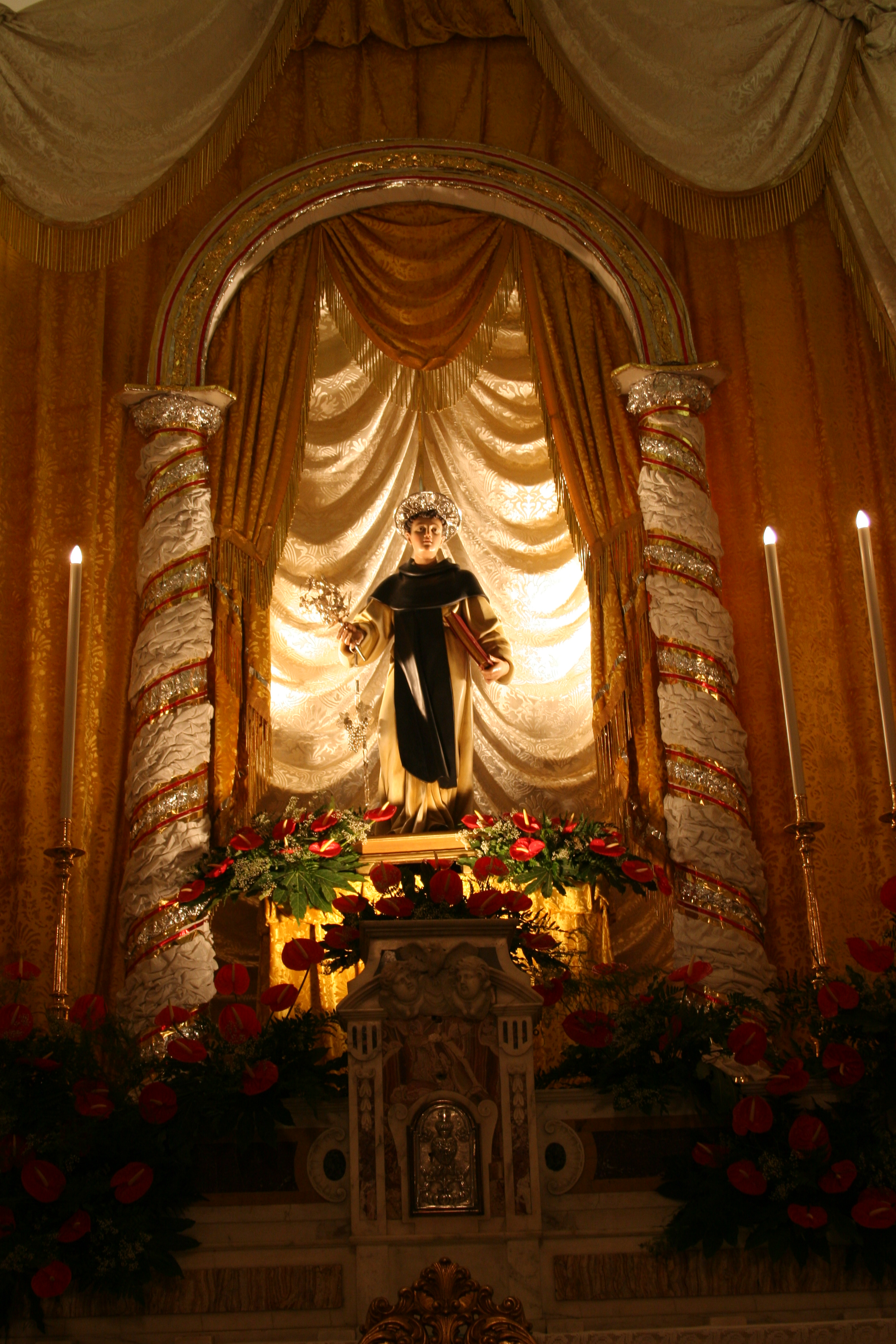 St Leonard in Panza d'Ischia